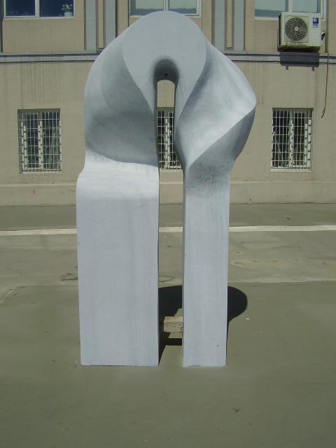 Sculpted Marble in Mimar Sinan University, Istanbul, Turkey.